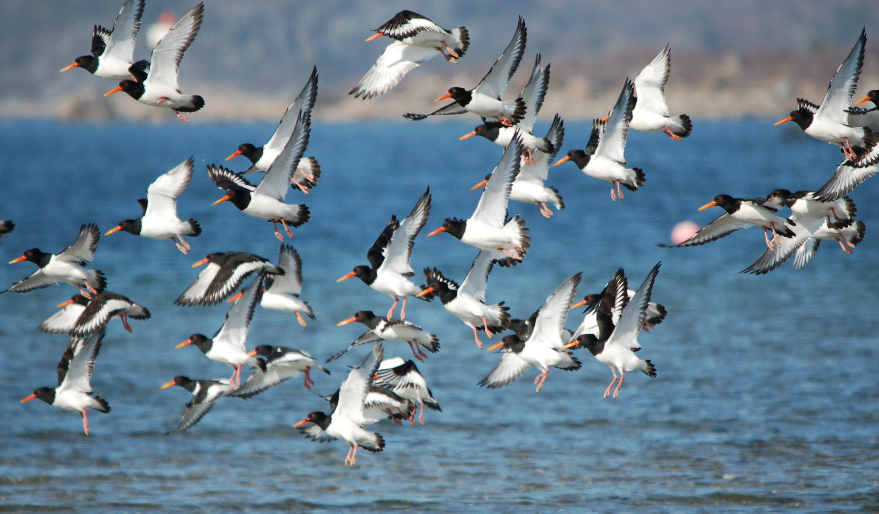 The Eurasian Oystercatcher Haematopus ostralegus, also known as the Common Pied Oystercatcher